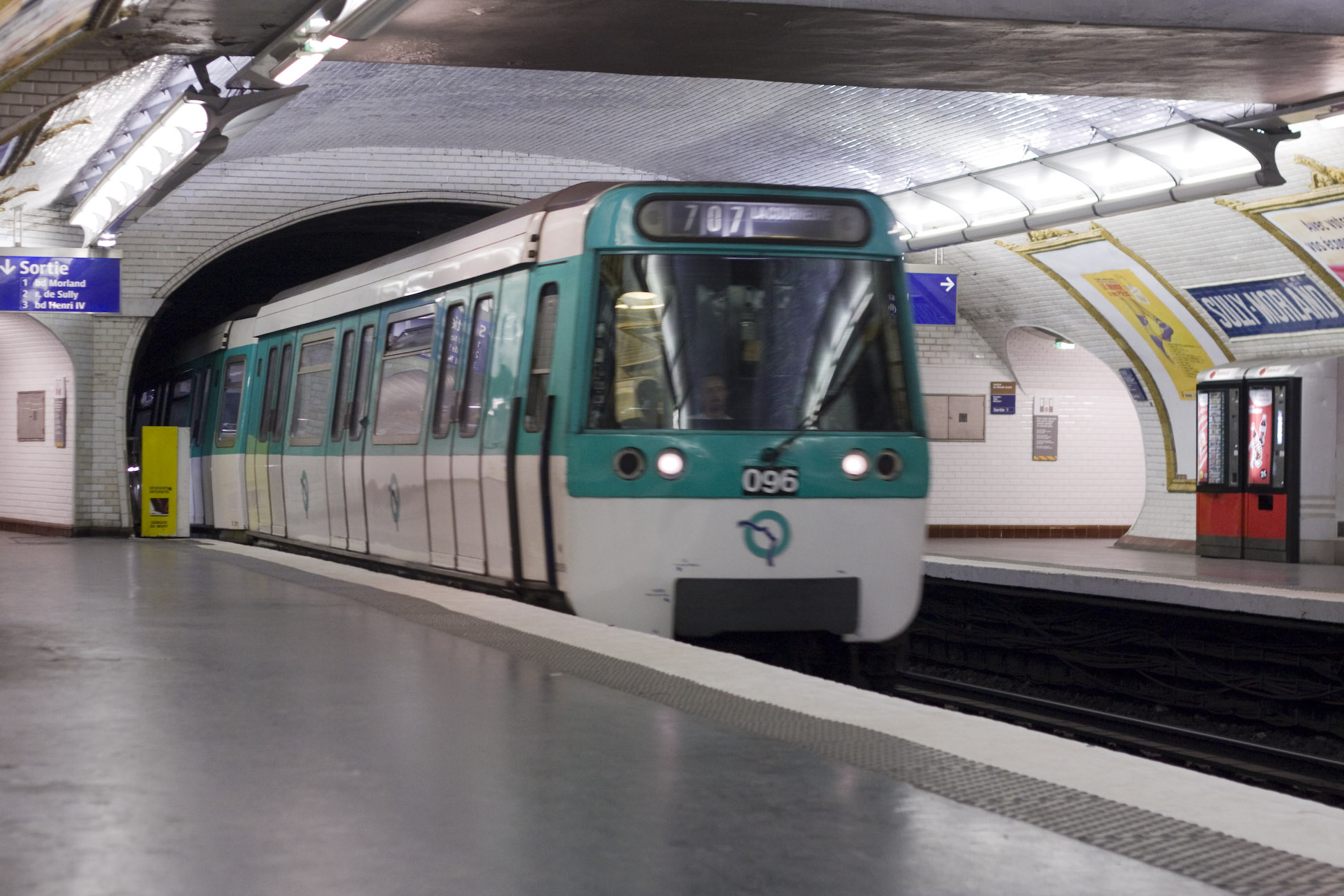 MF 77 on Sully-Morland station of Paris Métro